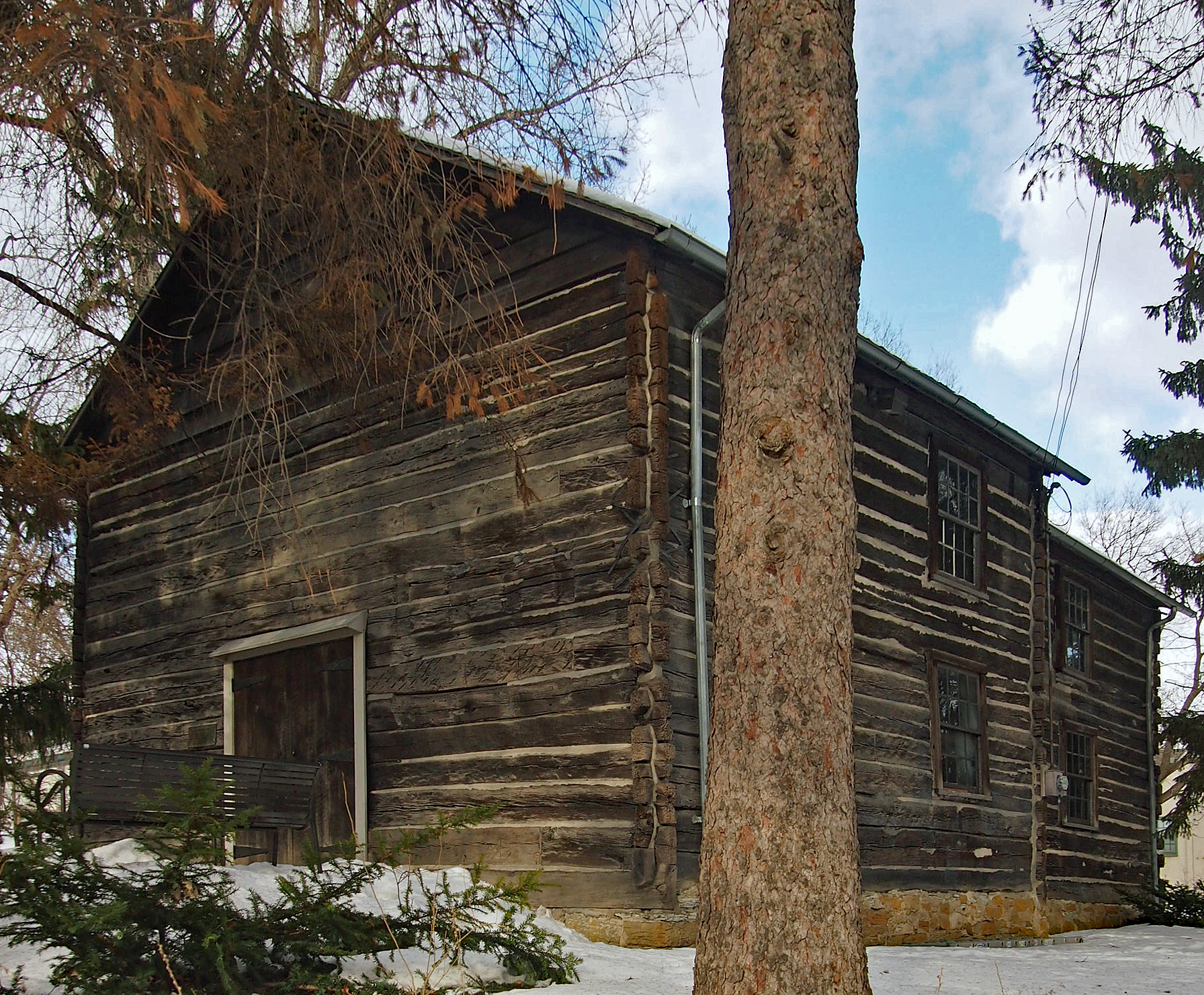 Norway Lutheran Church (Old Muskego Church), built 1843 in Muskego Settlement, Wisconsin; now in St Paul, Minnesota, USA